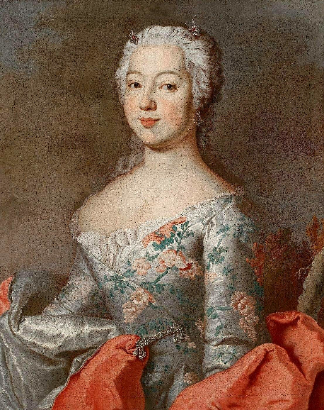 Portrait of Antonina Radziwill